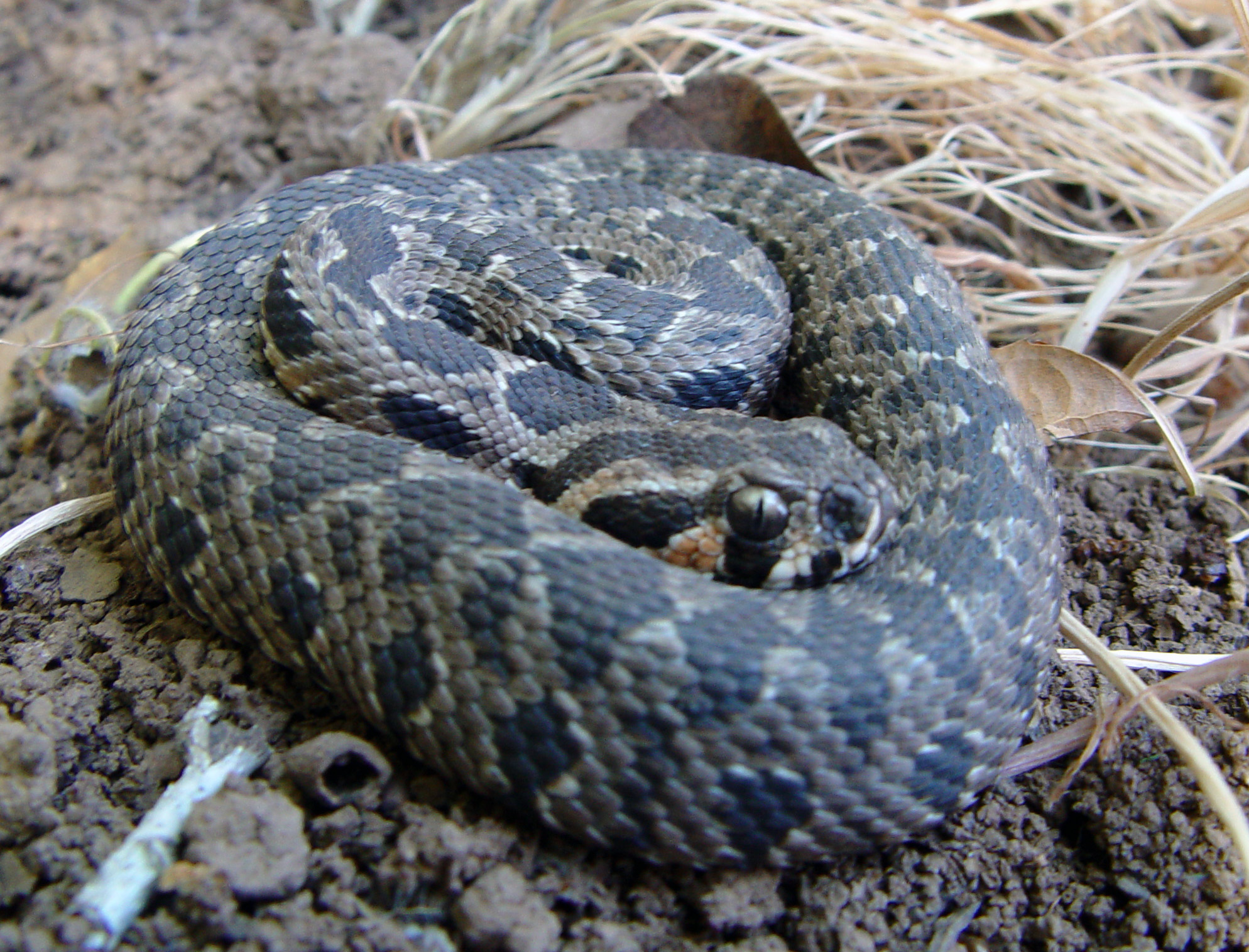 Vipera palaestina hatchling Taken In Israel, By Guy Haimovitch